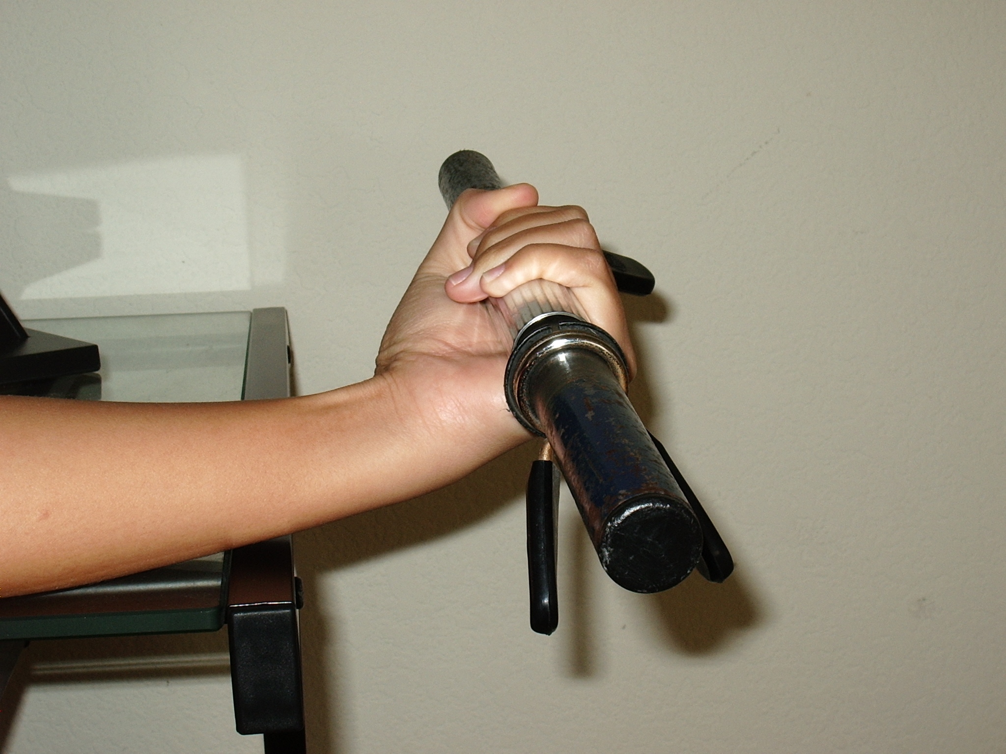 Wrist curls to strengthen UCL by doing flexion exercise